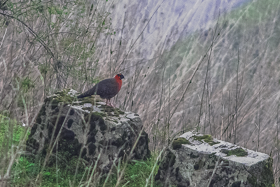 The specie Satyr Tragopan had been photographed during the birding tour of GoingWild at East Sikkim, India on 28.05.2015.